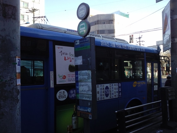 Seoul bus stop